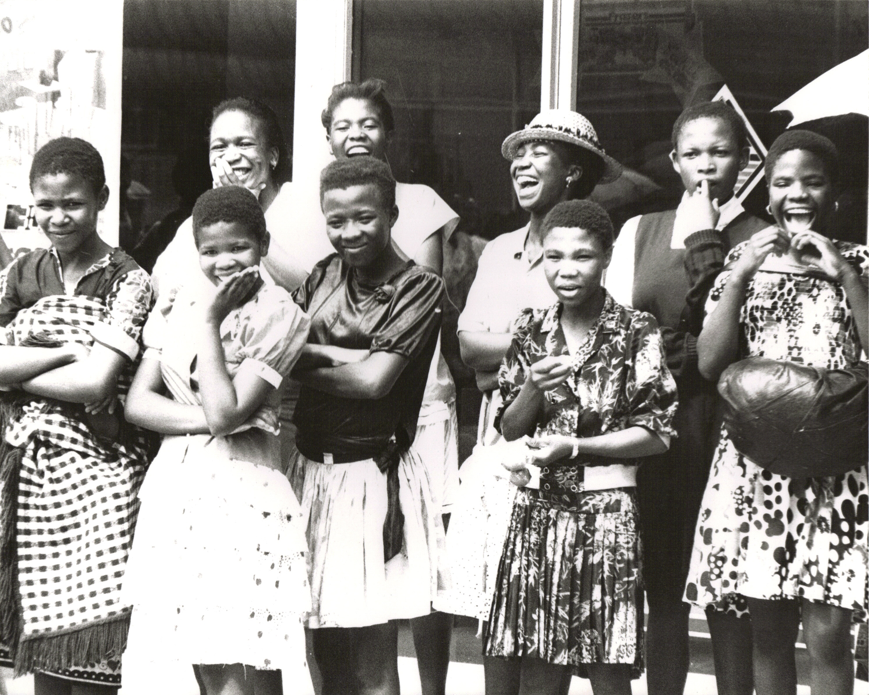 Audience at drama staged by Lesotho Theatre for AIDS Education (LETHAE), directed by K. Limakatso Kendall.